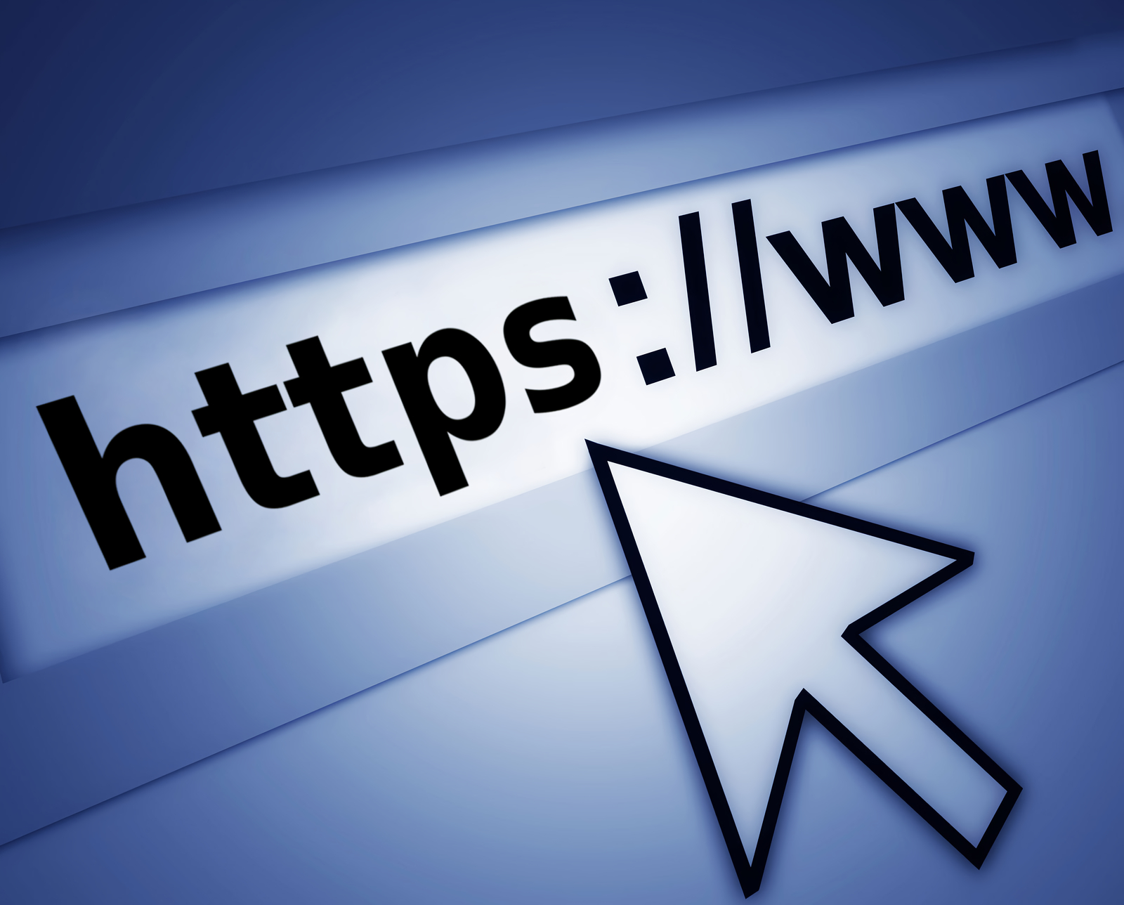 the new networking protocol https and the www letters.